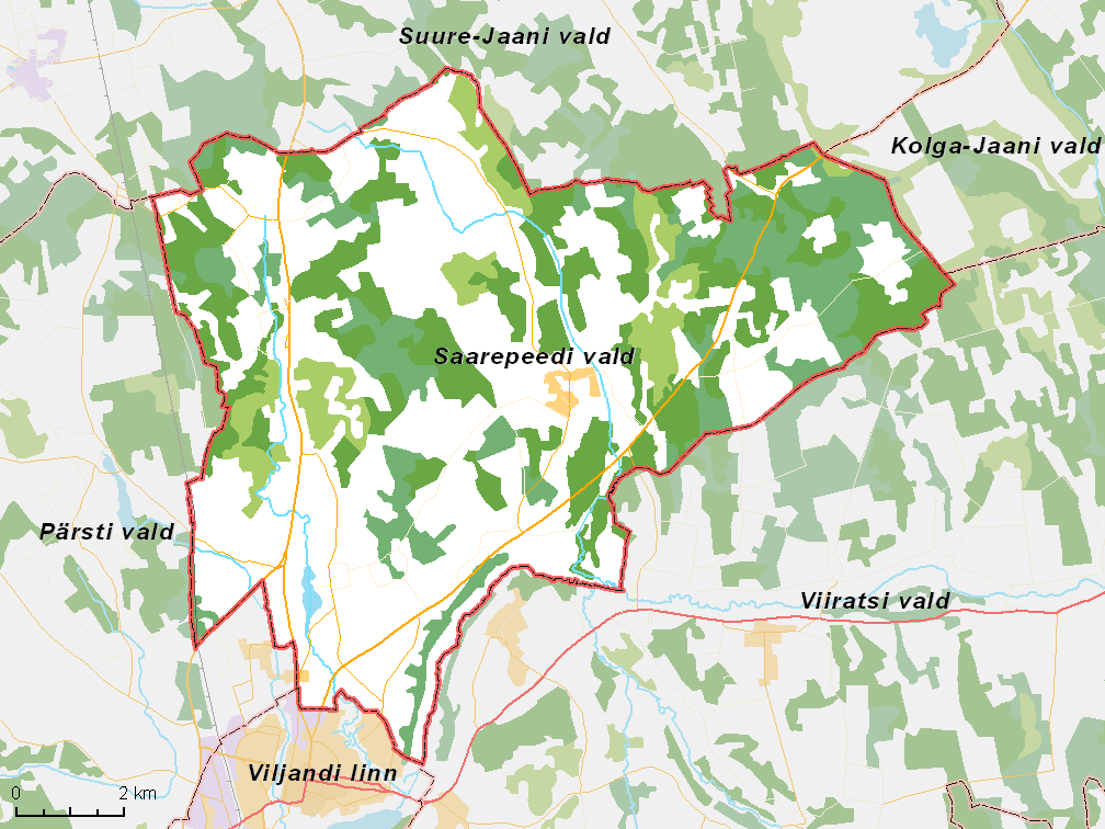 Map of municipality in Estonia